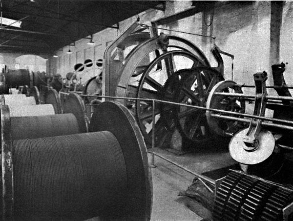 Cabel manufacturing